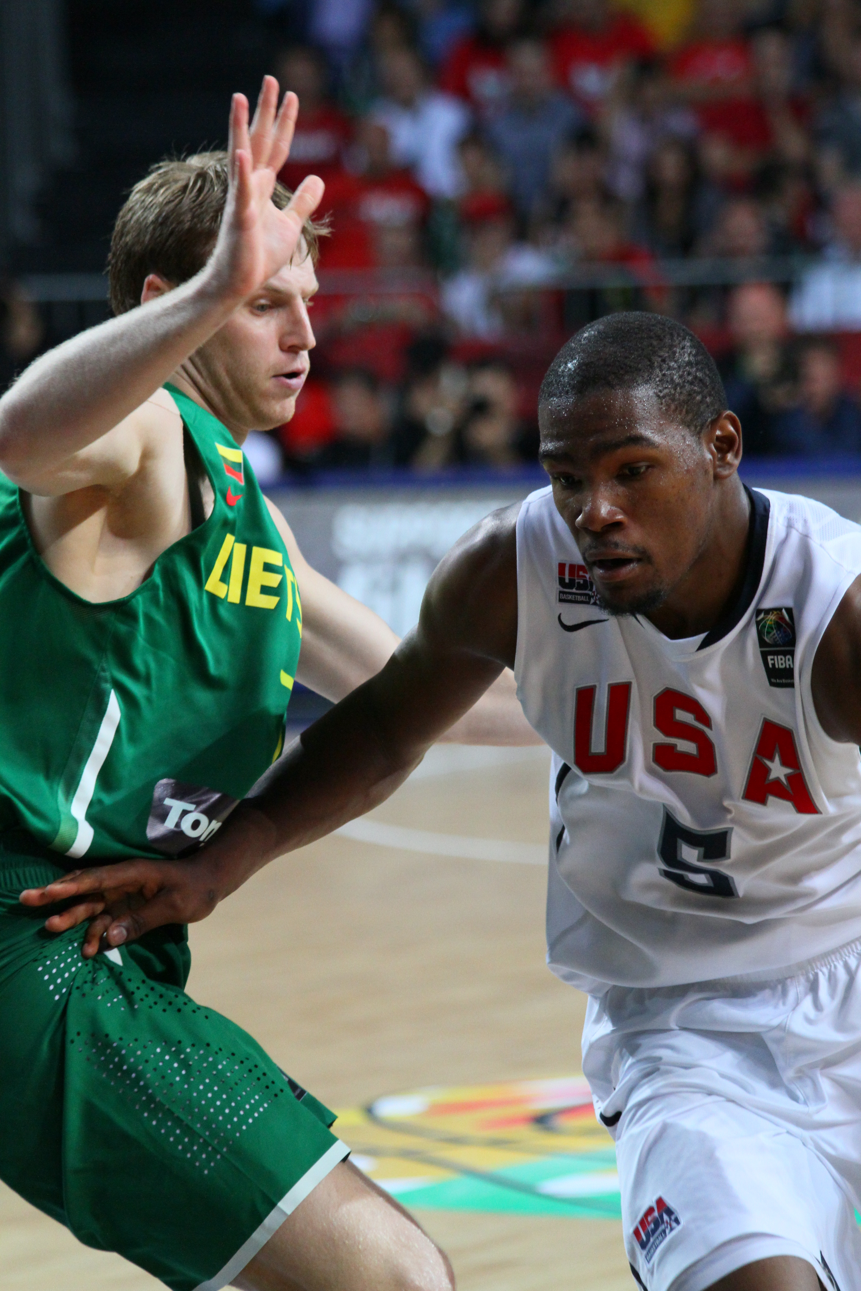 Martynas Pocius tries to guard tournament MVP Kevin Durant.